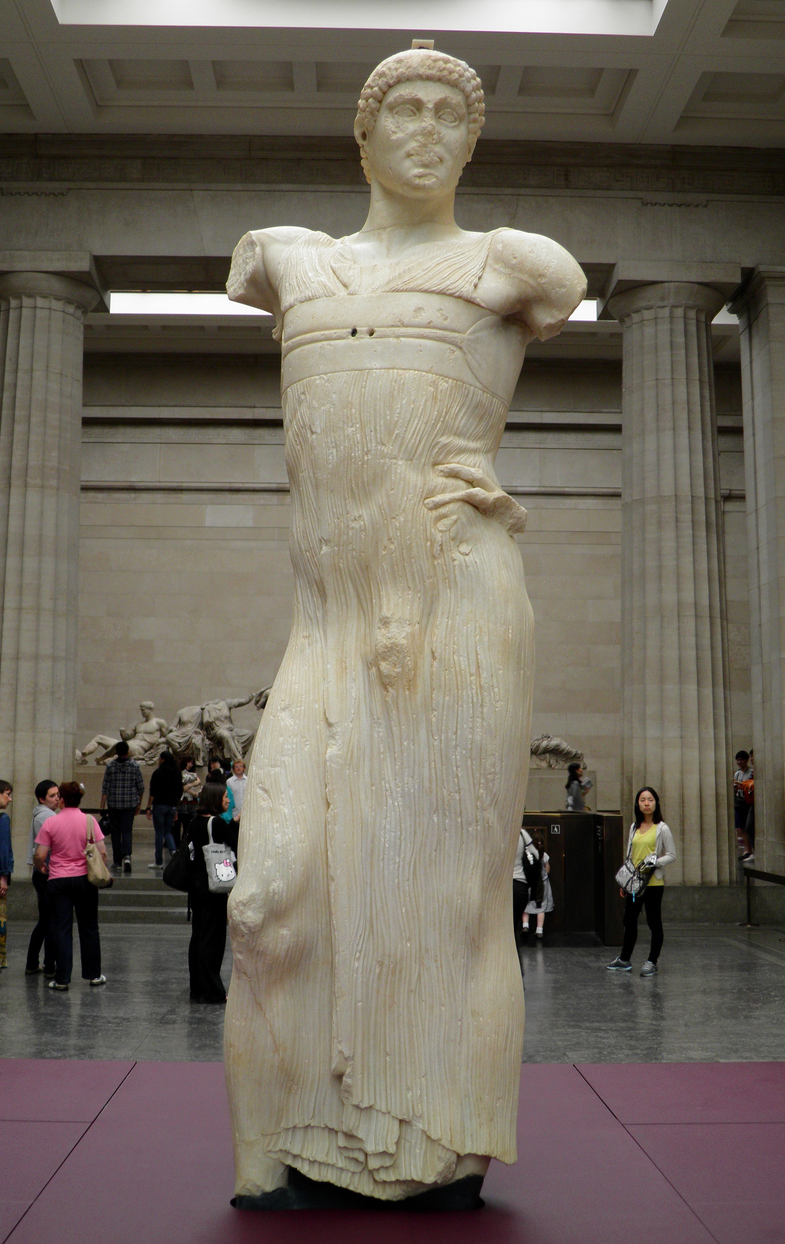 Marble from Greece or Turkey. This is a very rare surviving example of an original Greek victor statue. The athlete stands in a confident pose, raising his right arm probably to place or adjust a victor's wreath on his head. The wreath would have been metal attached to the head by pins. The statue is renowned for its remarkable touches of realism, such as the way the fingers of the left hand press into the hip and pull the fine fabric.